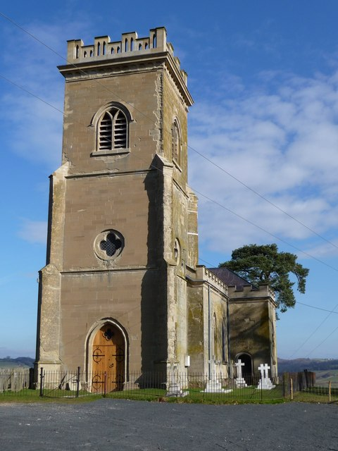 St Mary's parish church, Stanford-on-Teme, Worcestershire, seen from the southwest